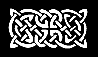 Celtic knotwork This image from "Public Domain Pagan Clipart" page at which states "I hereby declare all this original artwork public domain."